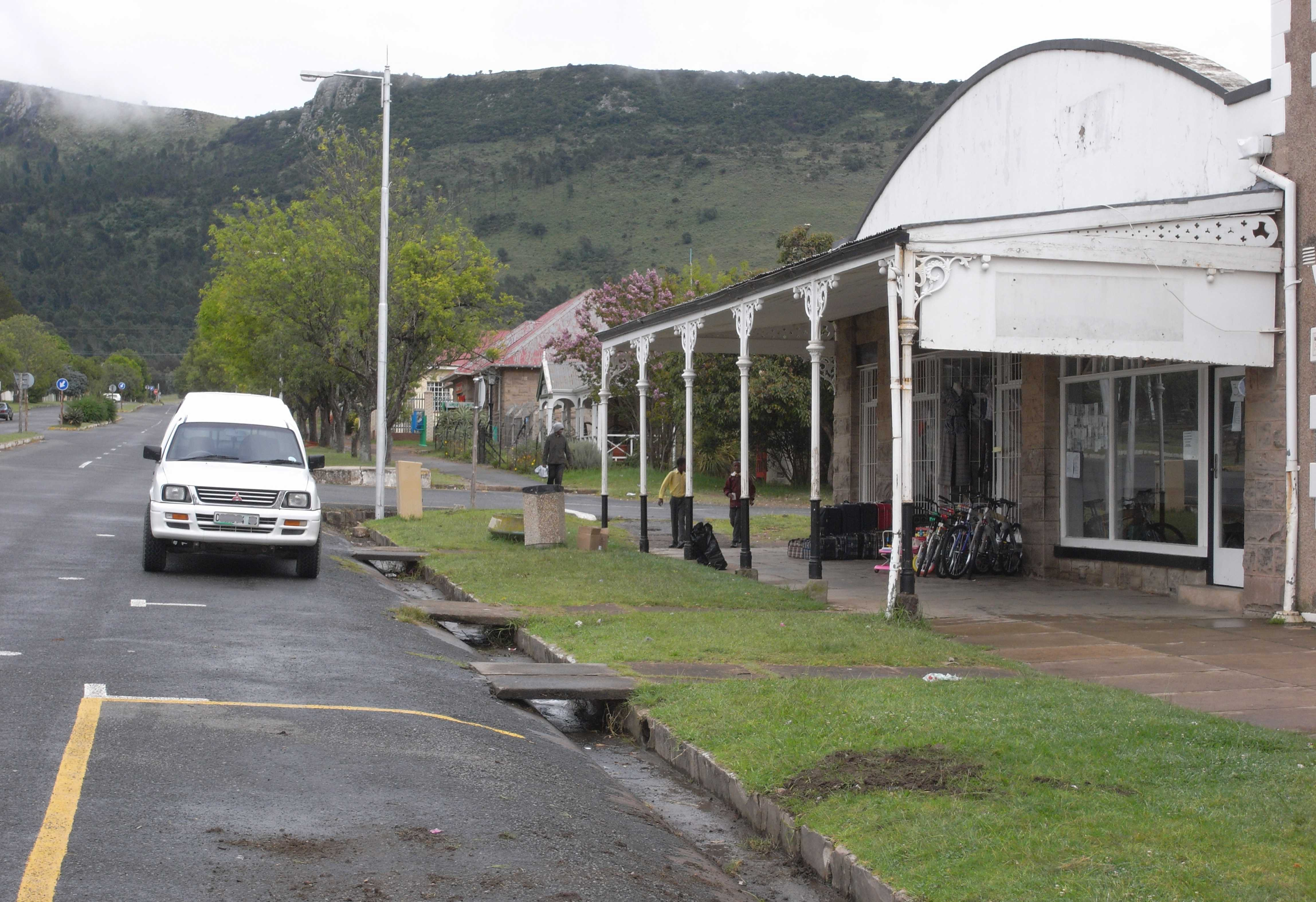 Cathcart, main street, Windvogelberg in background (Eastern Cape, South Africa)